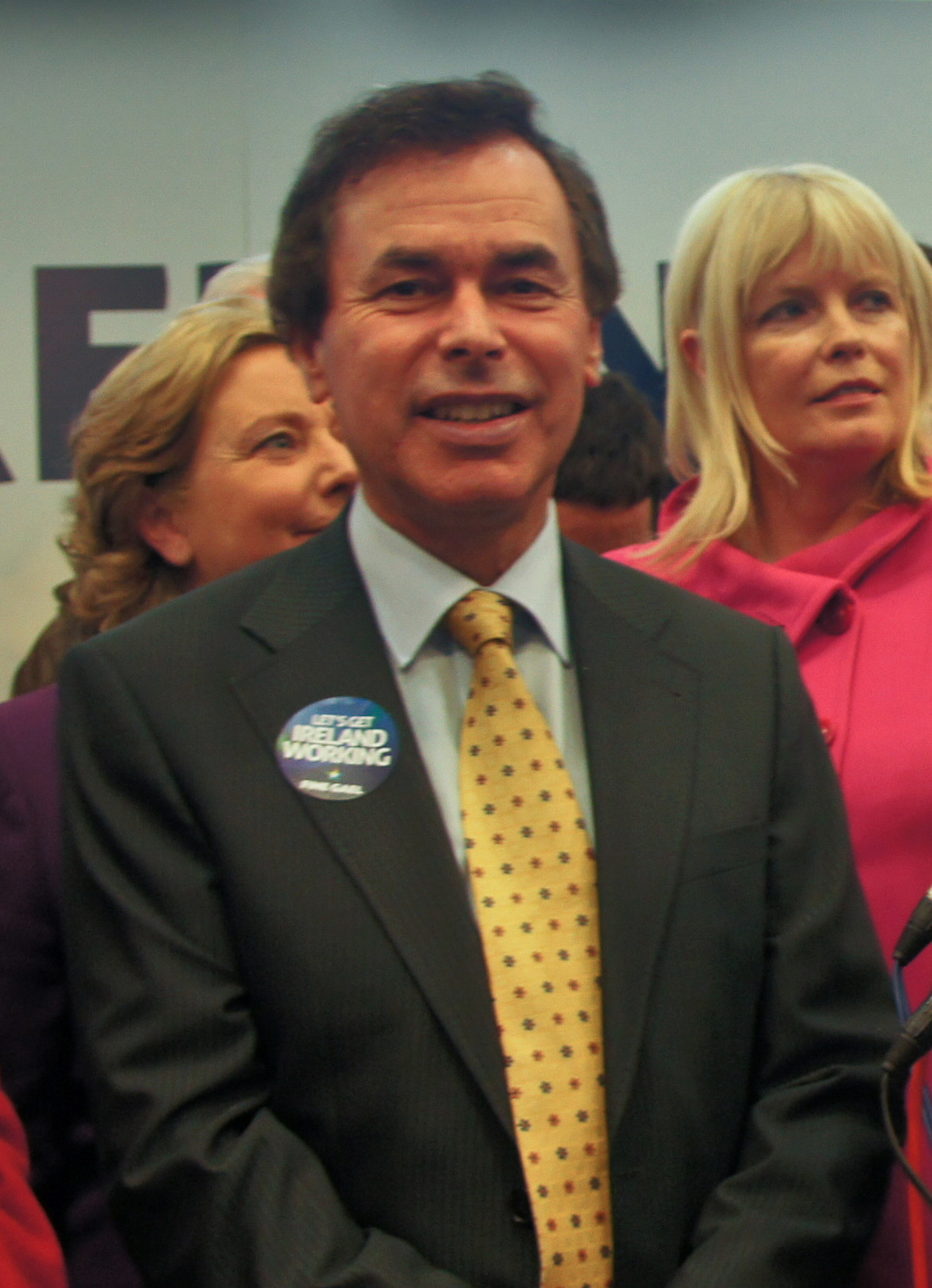 Alan Shatter TD at a Fine Gael press conference during the 2011 General Election